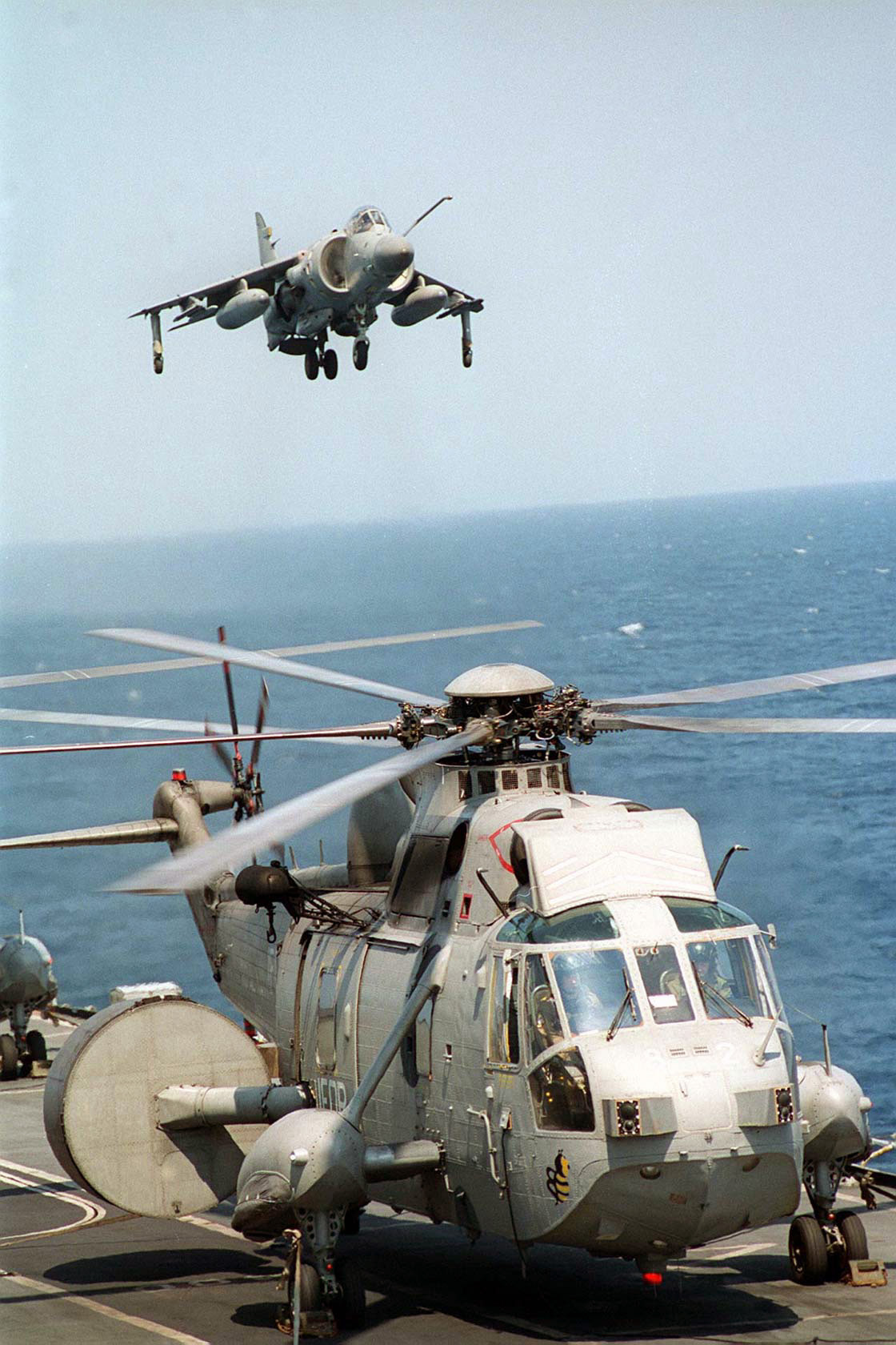 A Royal Navy Westland Sea King AEW.2A helicopter is turning up for liftoff from the aircraft carrier HMS Illustrious (R06) off the coast of North Carolina (USA), as a BAe Sea Harrier FA.2 is coming in for a landing.